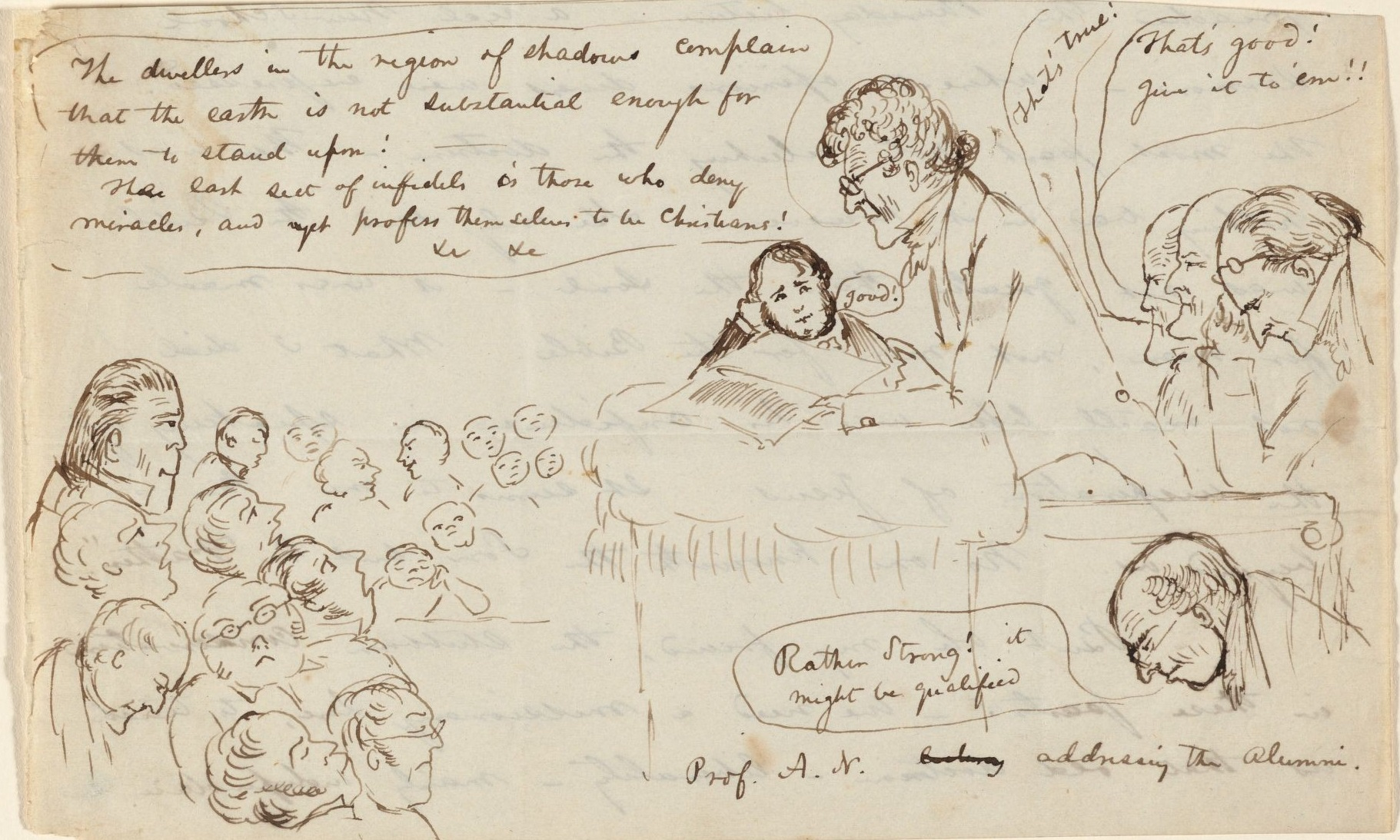 Illustration featuring Prof. Andrews Norton, by Christopher Pearse Cranch (1813-1892). Illustrations ca. 1837-1839, collected in 1844 by James Freeman Clarke and erroneously dated 1835. Christopher Pearse Cranch illustrations of the New Philosophy (MS Am 1506), Houghton Library, Harvard University